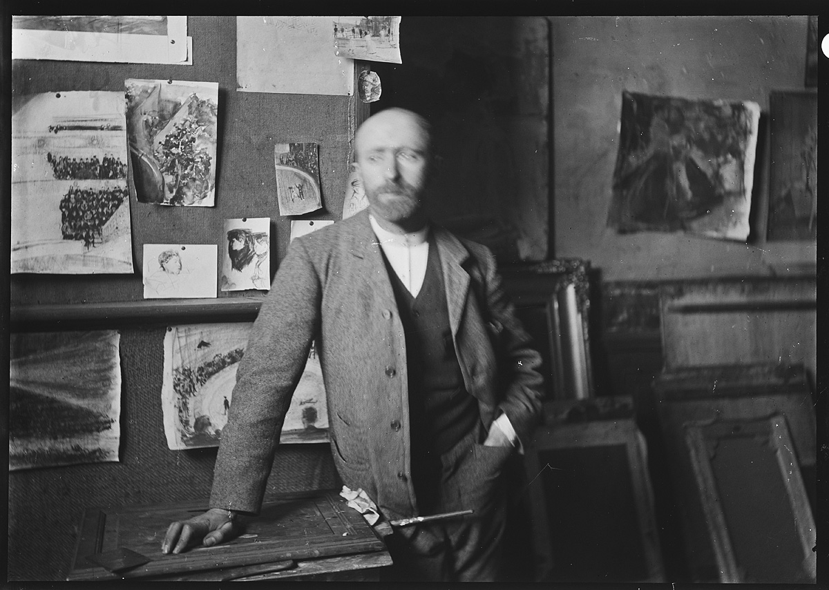 Dutch painter Isaac Israels in 1892 in his studio, Oosterparkstraat, Amsterdam (the Netherlands). Photograph by Willem Witsen.(Vergeer pag. 110)